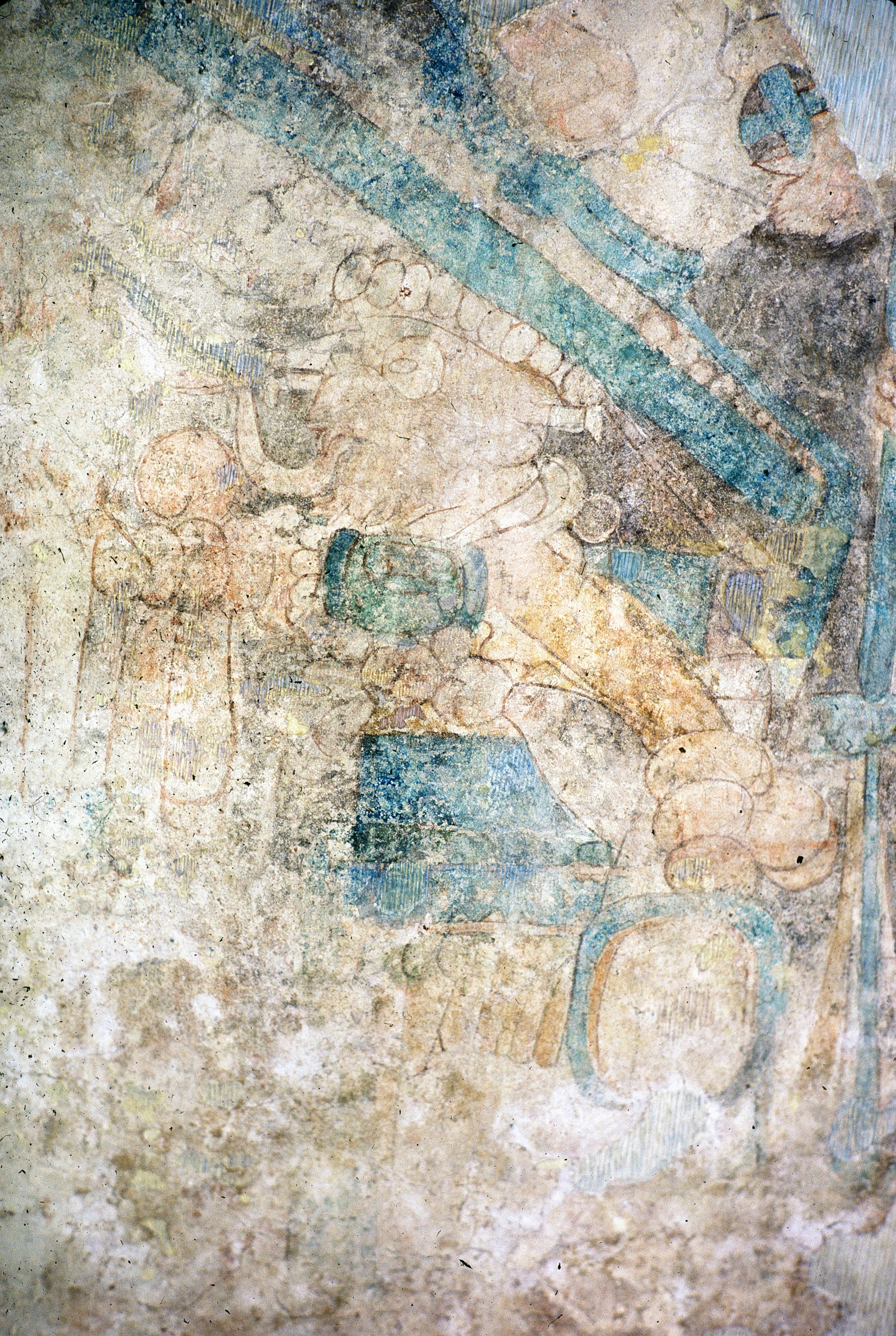 Mulchic, Yaucatan, Mexico; murals in Mérida museum